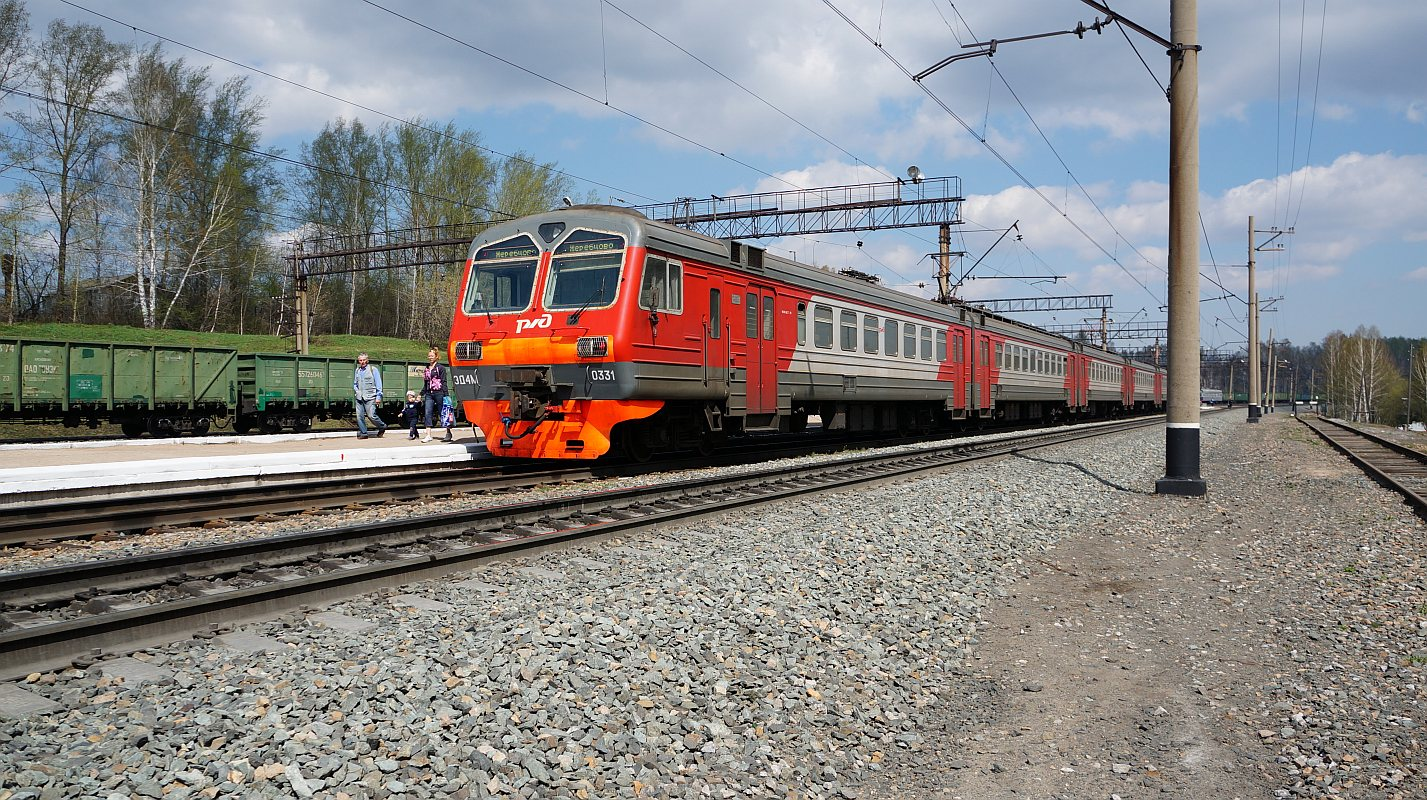 Electric multiple unit train ED4M-0331 at Zherebtsovo railway station, Novosibirsk region, Russia